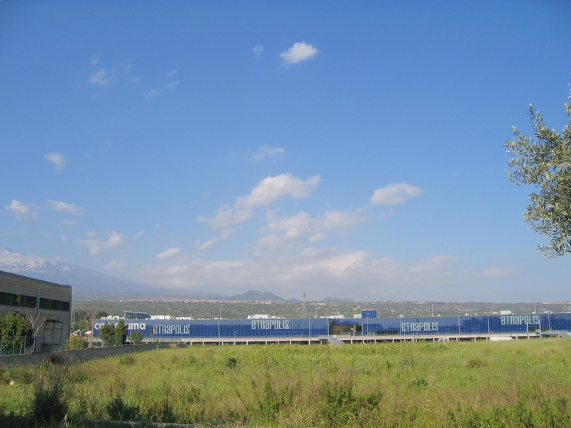 This is the biggest shopping center in Sicily on the slopes of Mt Etna. It is huge. I could not get far enough away to get it all into one picture!